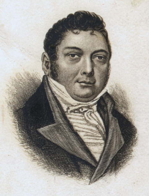 Photograph of an engraving of Matthew Murray, engineer